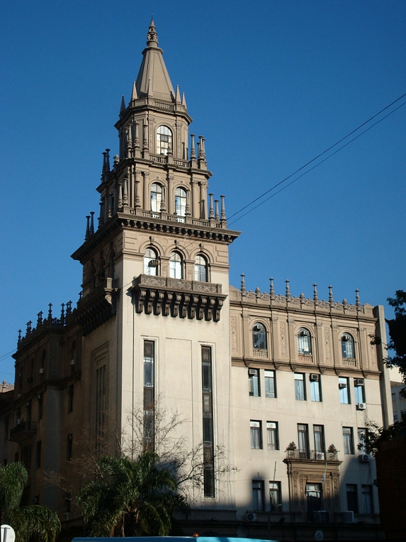 Ministerio de Salud Publica, Avenida 18 de Julio, Cordón, Montevideo, Uruguay.